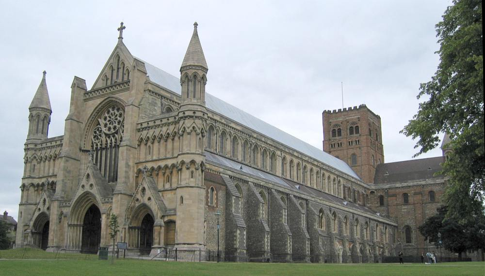 St Albans Cathedral, from the west